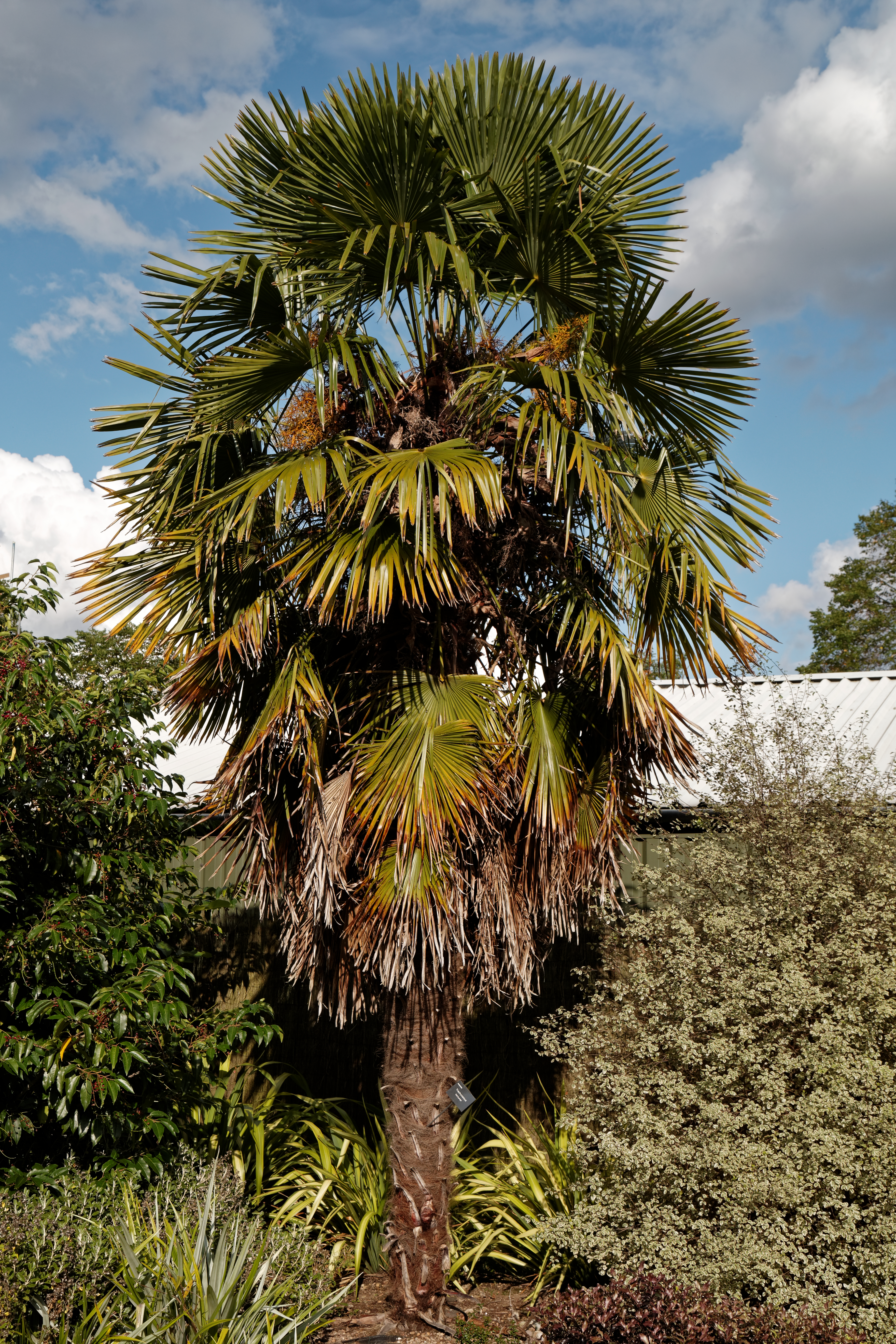 Trachycarpus fortunei, otherwise Chusan palm, windmill palm or Chinese windmill palm, at Capel Manor College and Gardens, Bulls Cross, Enfield, London, England.Software: RAW file lens-corrected, optimized and converted to JPEG with DxO OpticsPro 10 Elite, and likely further optimized and/or cropped and/or spun with Adobe Photoshop CS2.